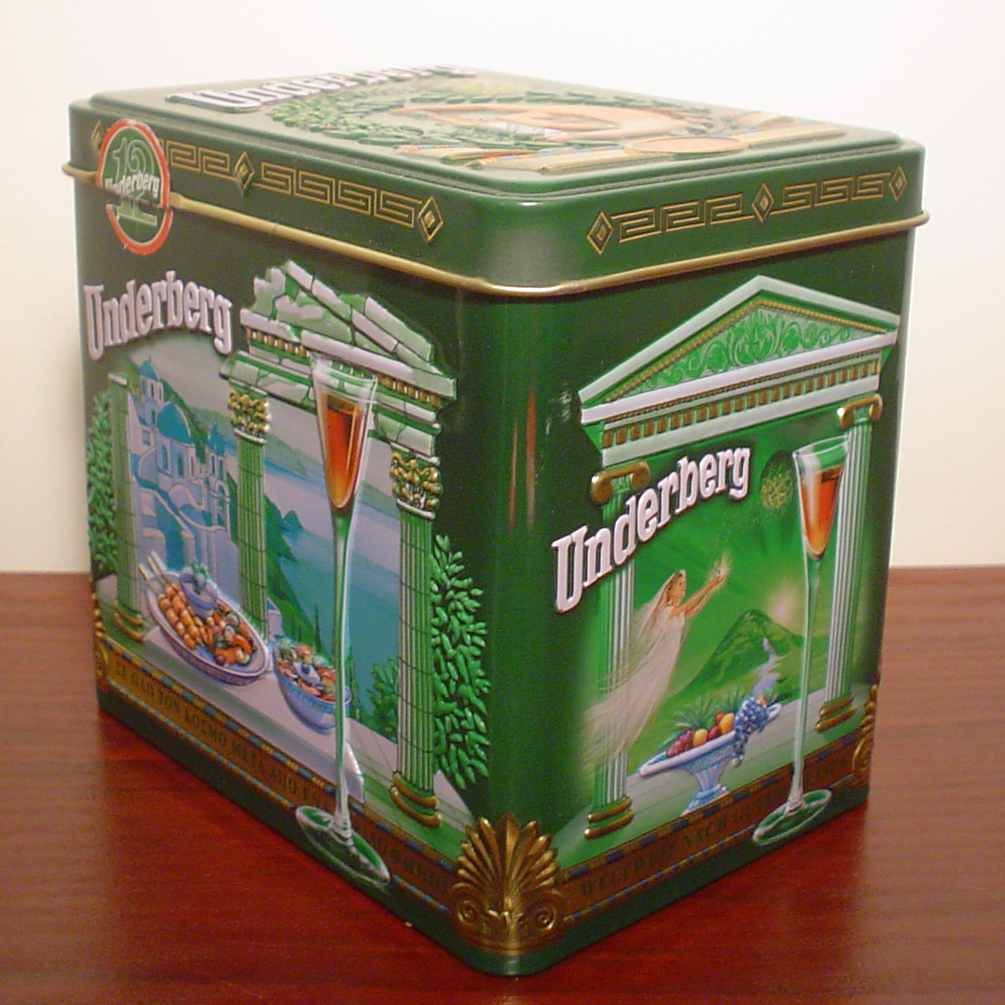 Underberg - a metal case containing 12 little bottles of 20 ml each (2007 Edition, with Greece as theme). Purchased at Frankfurt Airport (December 2006). Own photograph User:Contributor175